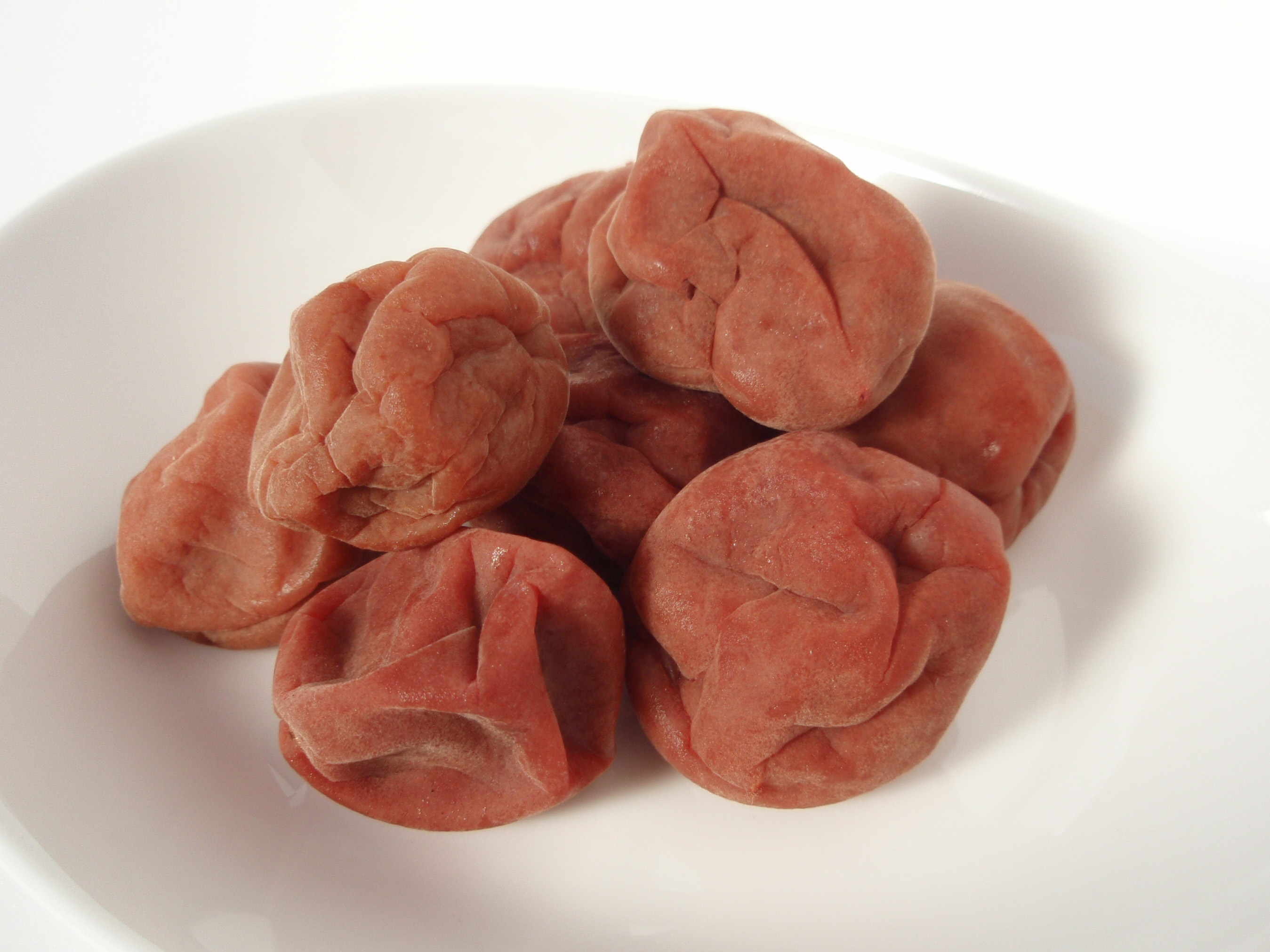 Umeboshi are pickled ume fruits common in Japan.